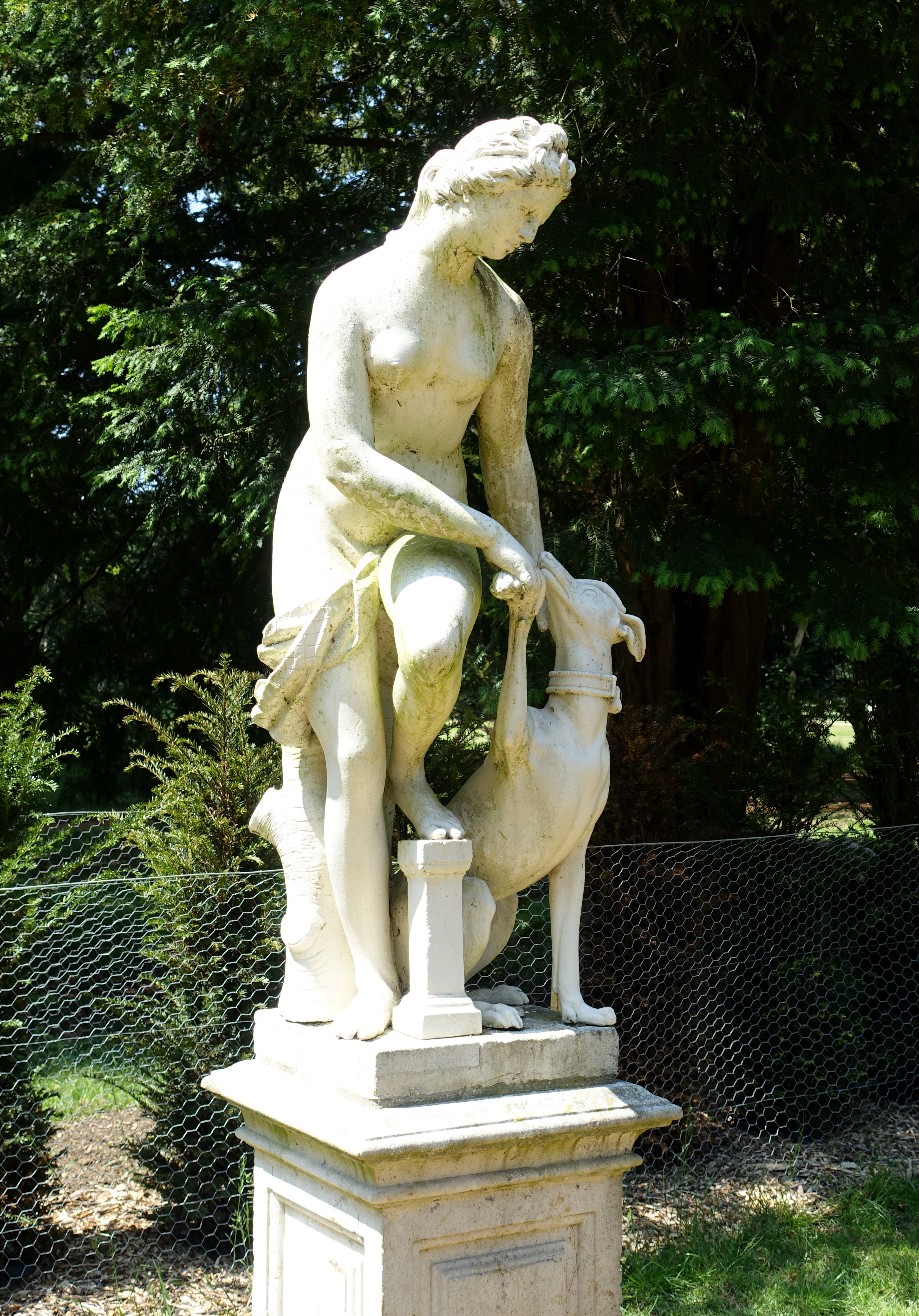 Statue in Wrest Park - Bedfordshire, England.